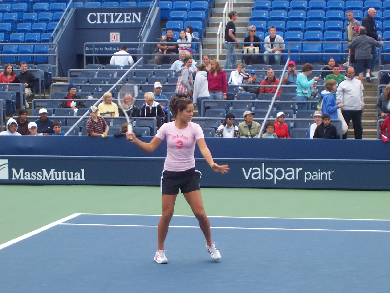 Ana Ivanovic At The 2007 US Open